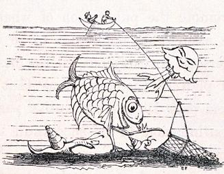 Frontispiece to Natural History of the European Seas by Edward Forbes (posthumously) and edited by Robert Godwin-Austen. Forbes' initials are in the lower right of this whimsical cartoon depicting deep sea dredging for marine fauna.